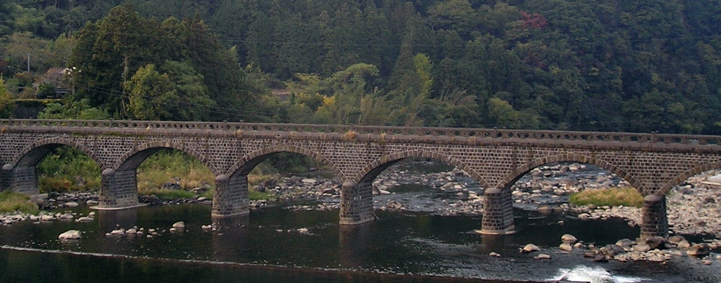 Yabakei Bridge, Japan's only eight continuous and the longest stone arch bridge across the Japan, is located in the downstream of Yabakei Gorge near Aonodōmon, known as the blue cave tunnel, in Nakatsu, Oita, Japan.